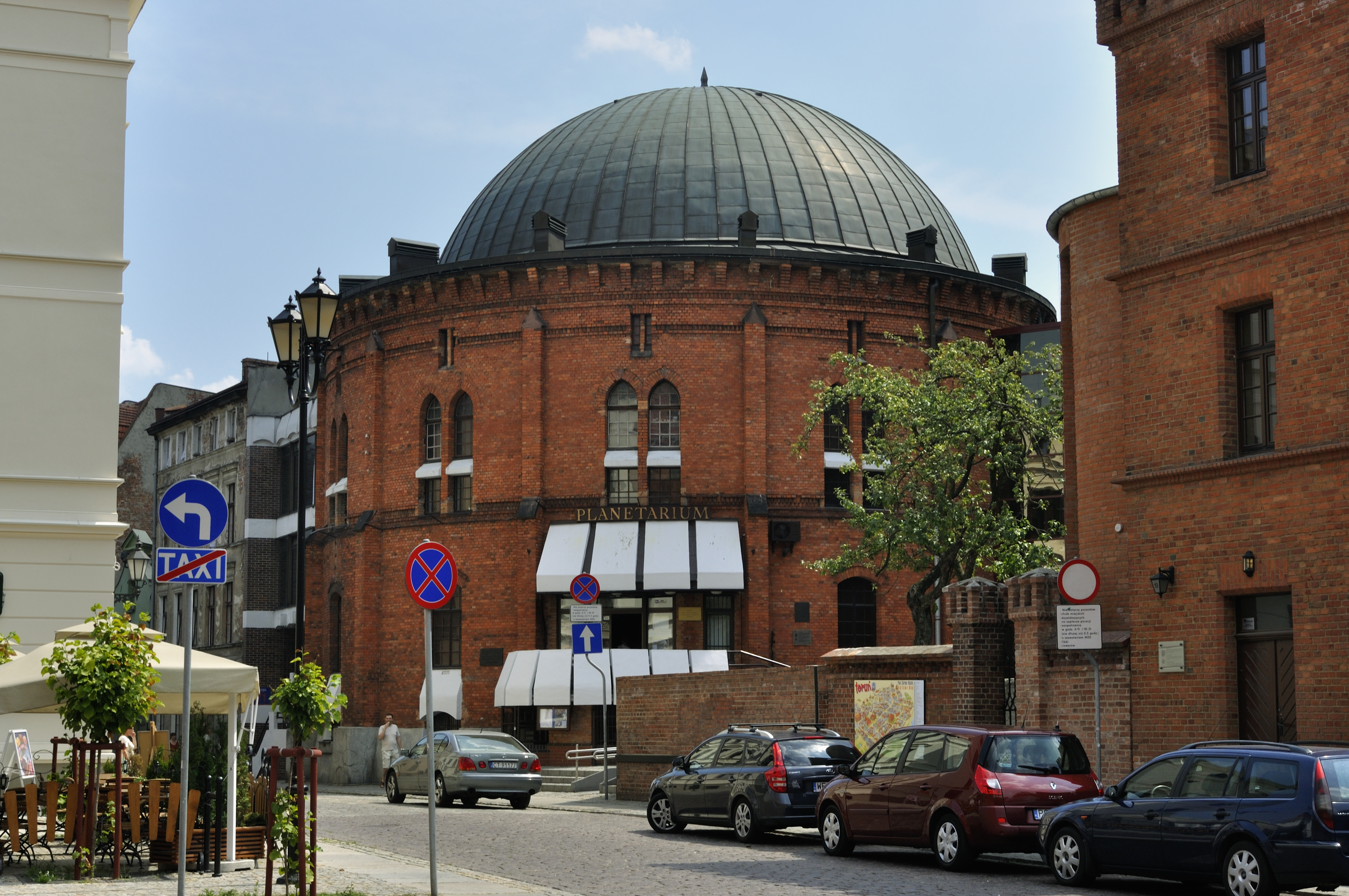 Picture taken in Toruń after Wikimania 2010 conference.